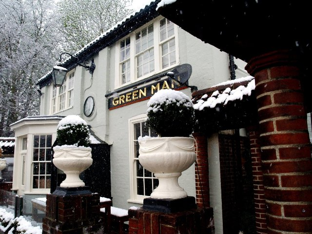 The Green Man Spring is sprung on Putney Heath